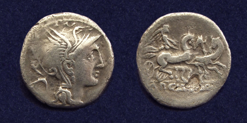 Roman Republic, AR Denarius, struck 111-110 BC, Appius Claudius Pulcher, T. Manlius Mancius and Q. Urbinus. Obverse: Helmeted head of Roman right. Reverse: Victory in triga right, one horse looking back.